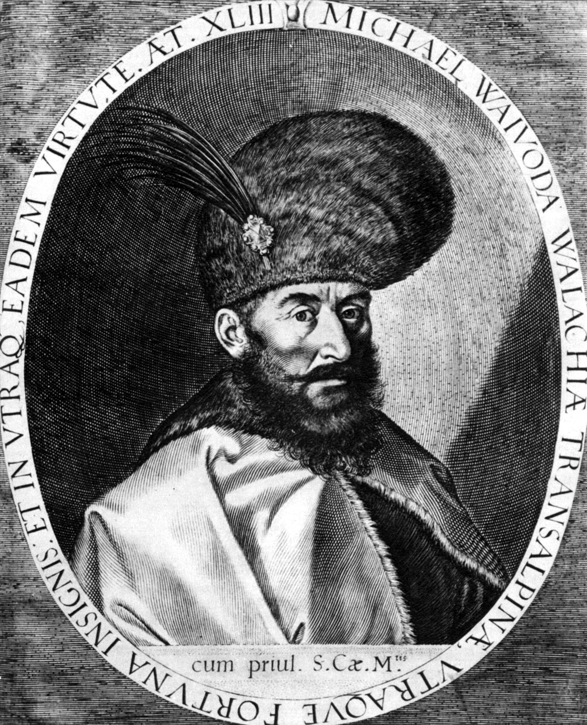 Portrait of Michael the Brave (1558-1601), prince of Wallachia, Transylvania and Moldavia made by Aegidius Sadeler II.